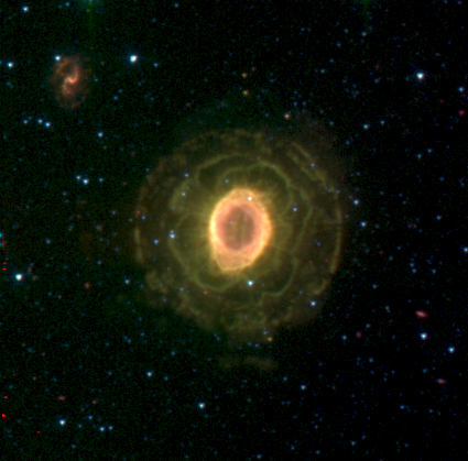 Image of the Ring Nebula in Infrared at 3.6 (blue), 5.8 (green) and 8.0 (red) µm. The image has been made by myself (Médéric Boquien) from the public image archive of the Spitzer Space Telescope (courtesy NASA/JPL-Caltech)